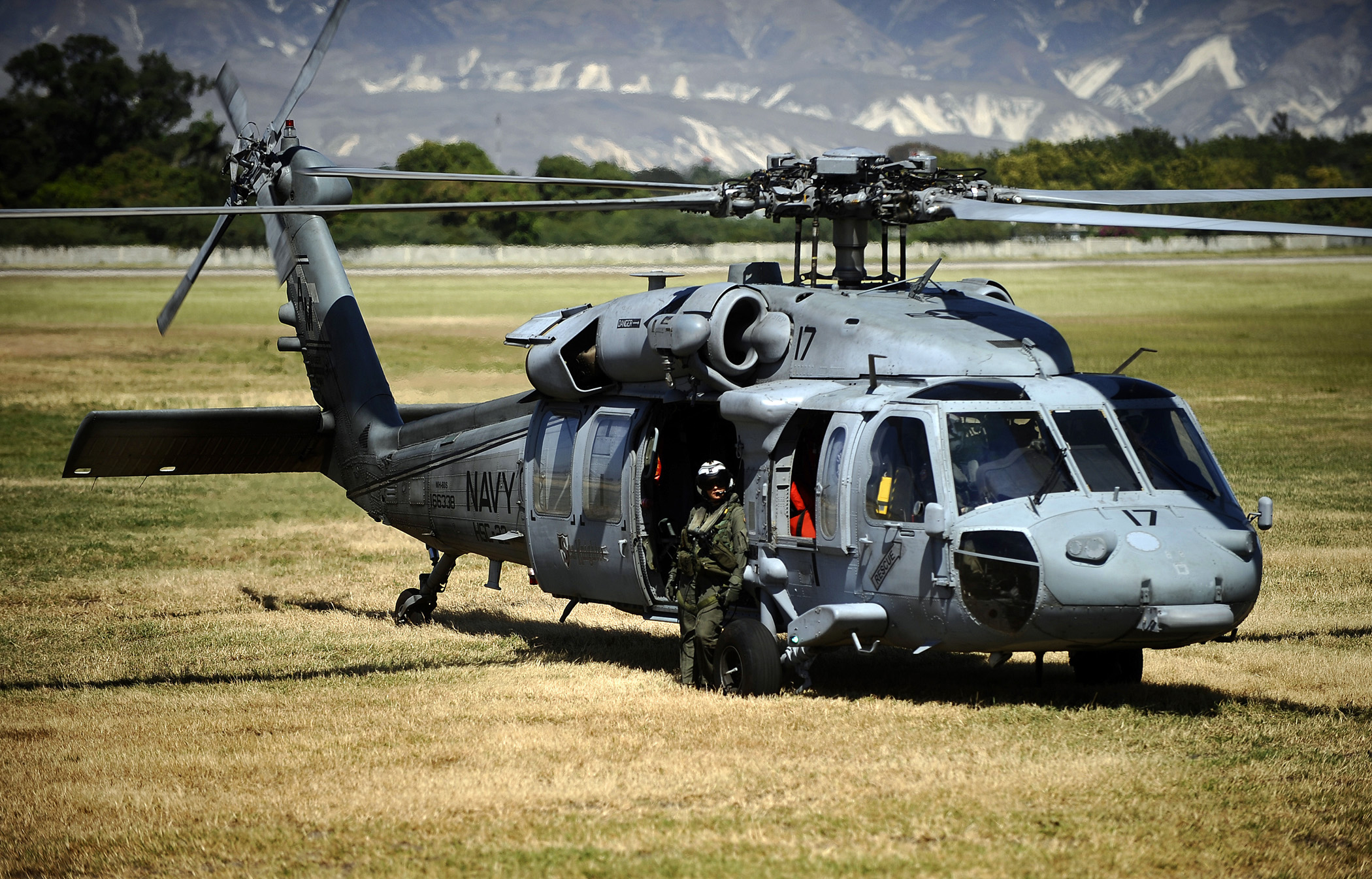 PORT-AU-PRINCE, Haiti (Jan. 28, 2010) A Navy air crewman assigned to the Sea Knights of Helicopter Sea Combat Squadron (HSC) 22, waits outside an MH-60S Sea Hawk helicopter at Aerodome de Jacmel, an airport in Port-au-Prince, after a flight from the multi-purpose amphibious assault ship USS Bataan (LHD 5). Bataan and the amphibious dock landing ships USS Fort McHenry (LSD 43), USS Gunston Hall (LSD 44) and USS Carter Hall (LSD 50) are participating in Operation Unified Response as the Bataan Amphibious Relief Mission by providing military support capabilities to civil authorities to help stabilize and improve the situation in Haiti in the aftermath of a 7.0 magnitude earthquake on Jan. 12, 2010. (U.S. Navy photo by Mass Communication Specialist 2nd Class Kristopher Wilson/Released)